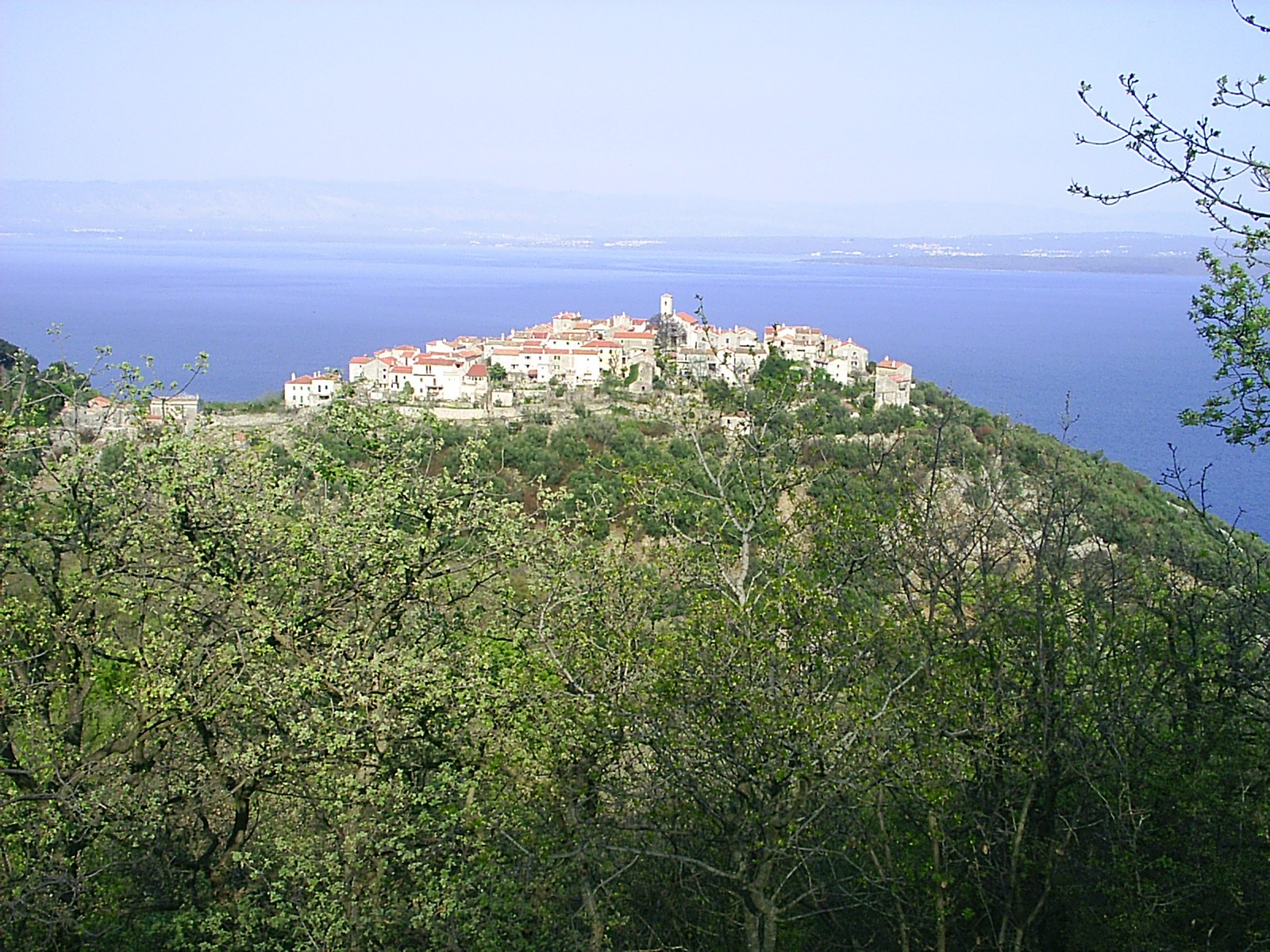 A town of Beli at the Cres Island, Croatia